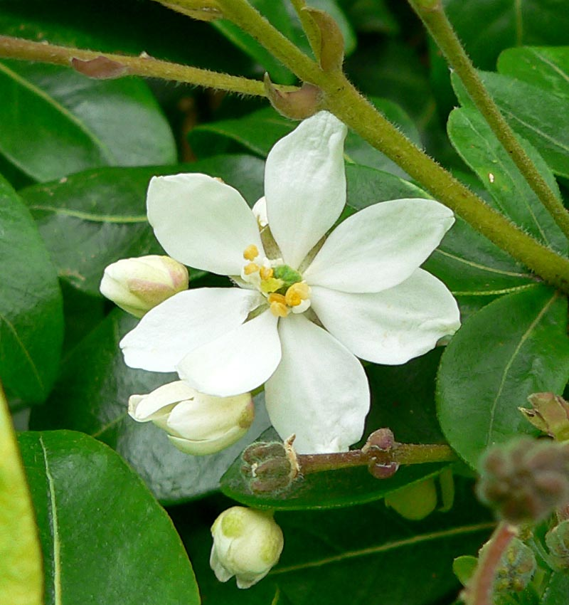 Photo of Choisya ternata at the San Francisco Botanical Garden